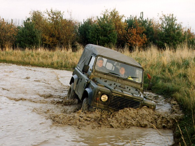 Defence School of Transport, Leconfield, East Riding of Yorkshire, England.Press invitation day, November 2004. The water course is full of submerged rocks and craters to test the driver's nerve!